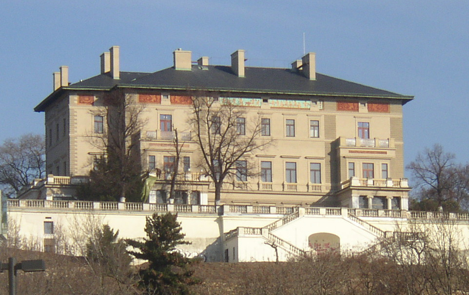 Villa Gröbe in Havlíček Park (Havlíčkovy sady), Prague-Vinohrady, Czech Republic. A viw from south, from Vršovická Street.